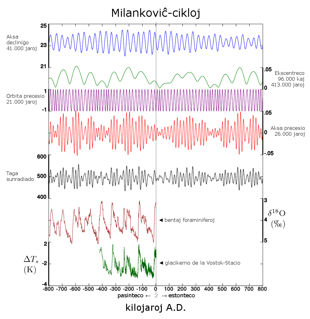 Milankovitch Cycles. Translated and recaptioned version of original image